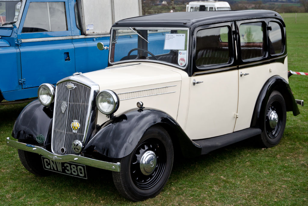 Wolseley Wasp 1935 (DVLA) first registered 14 August 1935, 1073 cc St Asaph Classic Car Show 21 April 2013